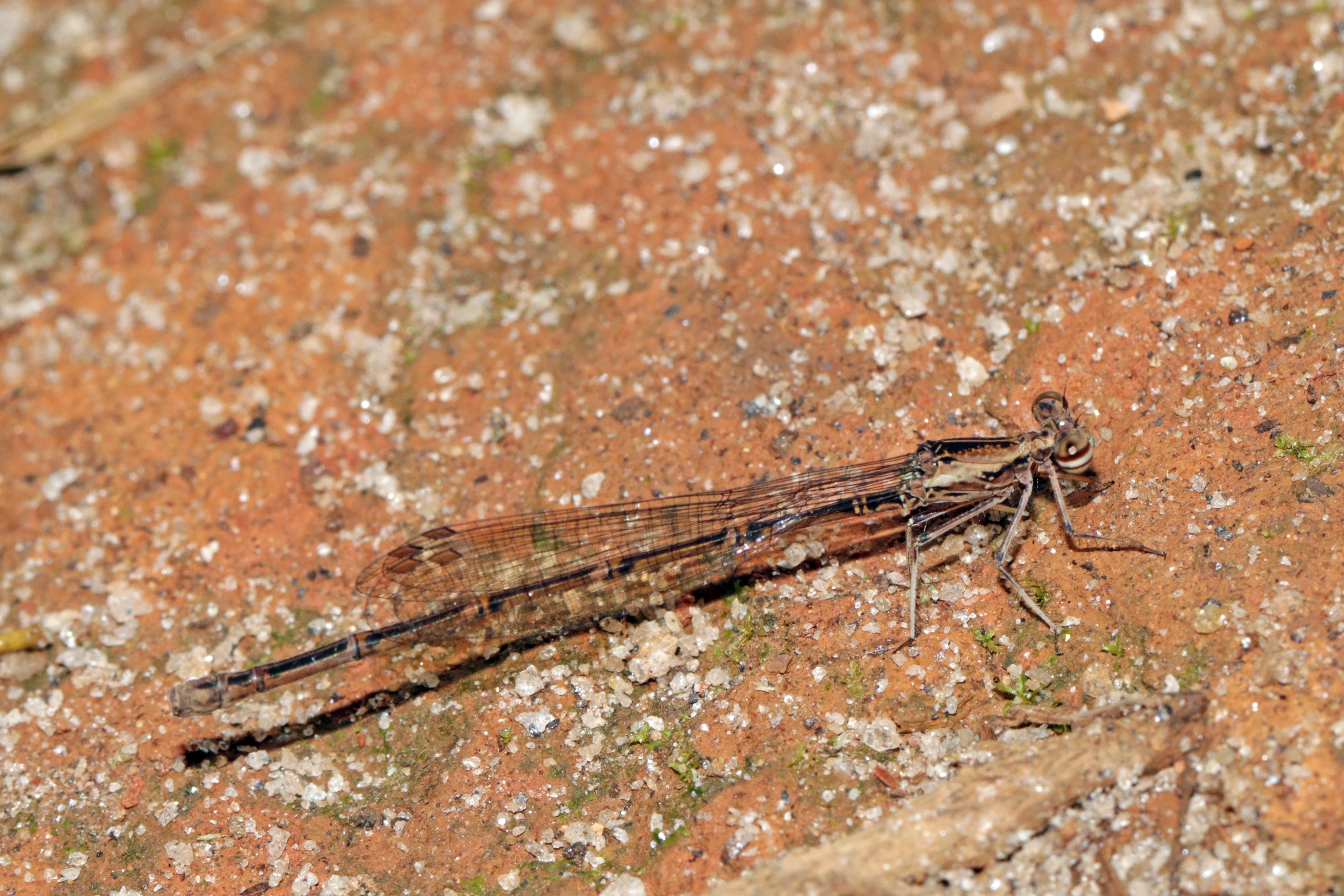 Proplatycnemis alatipes female, Andasibe, Madagascar